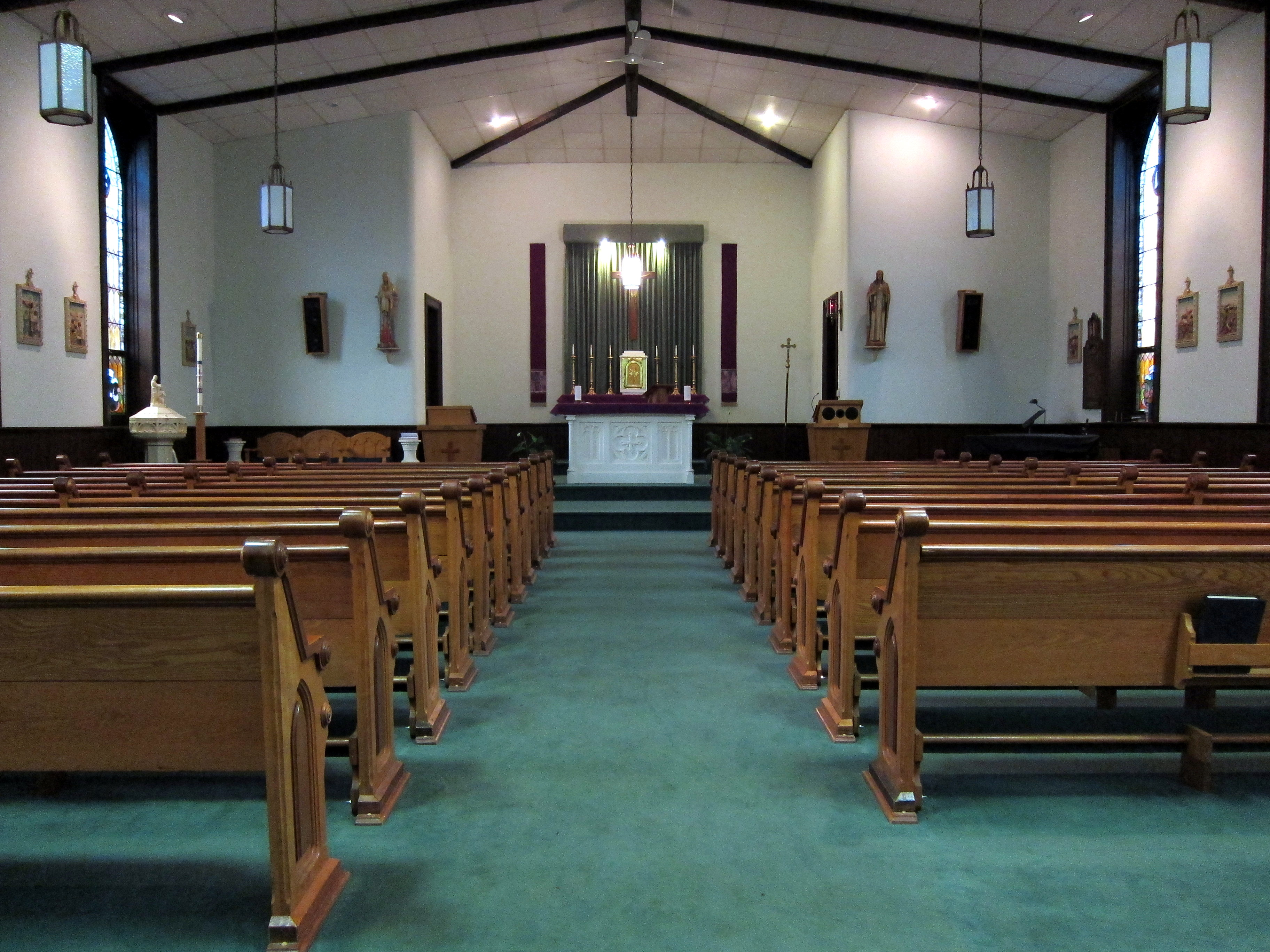 Saint Michael Catholic Church (Mechanicsburg, Ohio), interior, nave